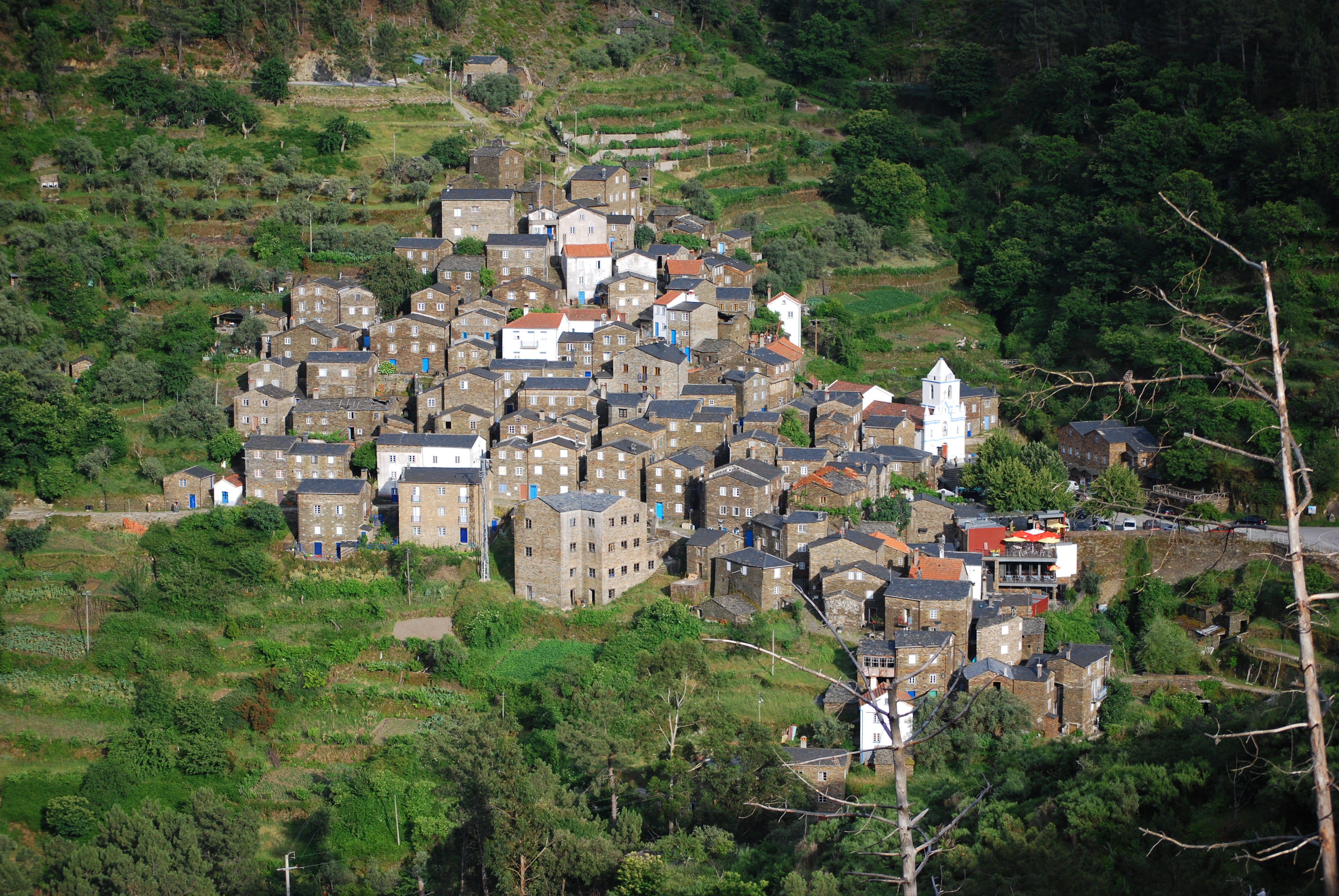 This file was uploaded for Wiki Loves Monuments in Portugal with the unique identifier 73200.